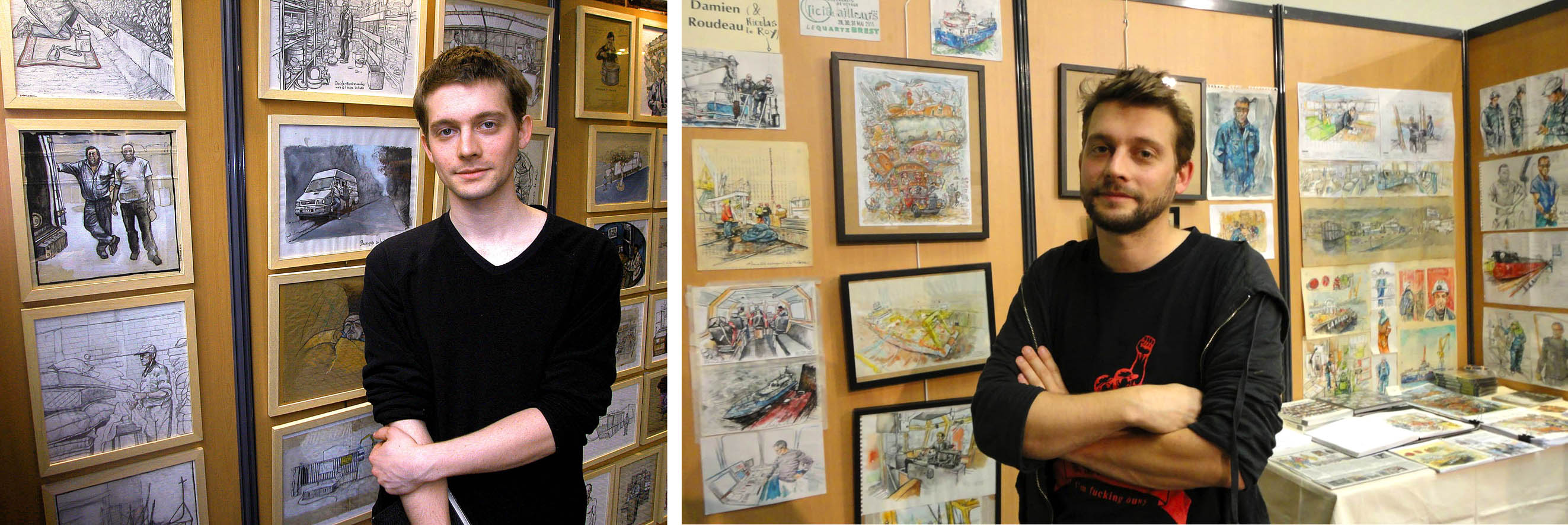 Carnets "Ici et ailleurs" : Damien Roudeau.